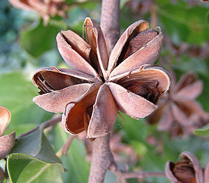 A Quillay pod opens to release its seeds near Curico, Chile. In context at